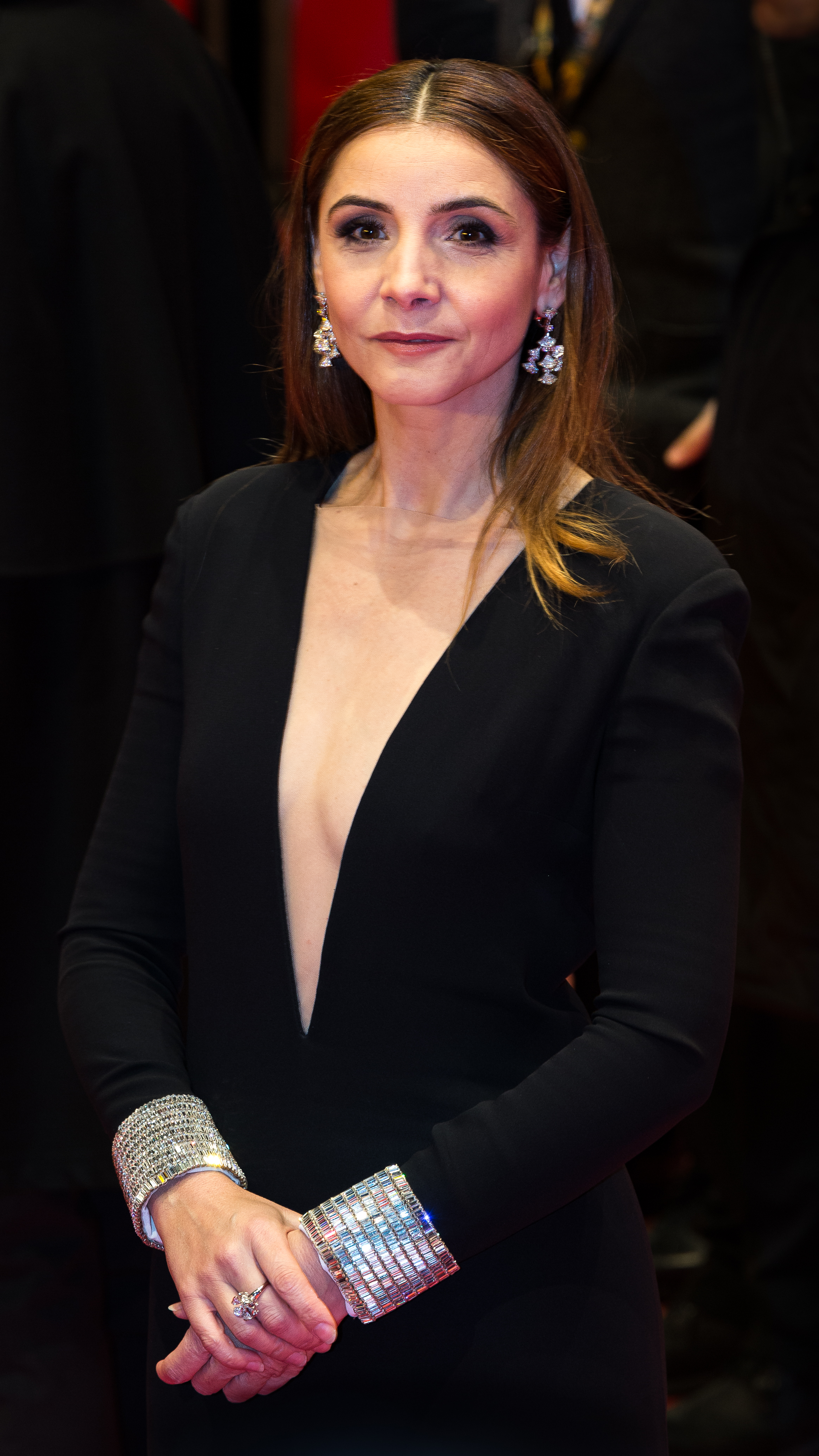 Clotilde Courau on the red carpet of the Berlinale 2017 opening film